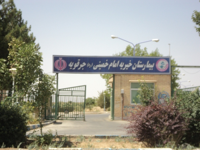 Imam Khomeini Hospitals of Nikabad.